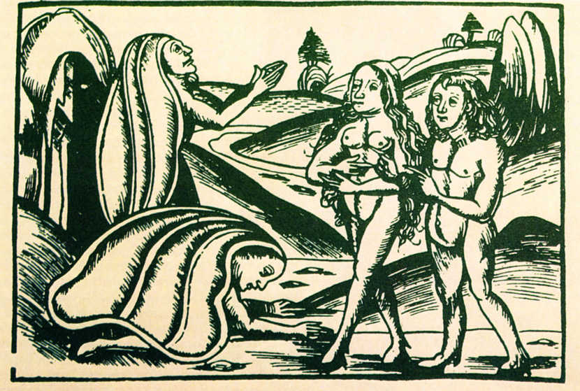 Engraving from the Aesop's fables, by Sebastian Brant (1457–1521). 1501 edition, page 372.